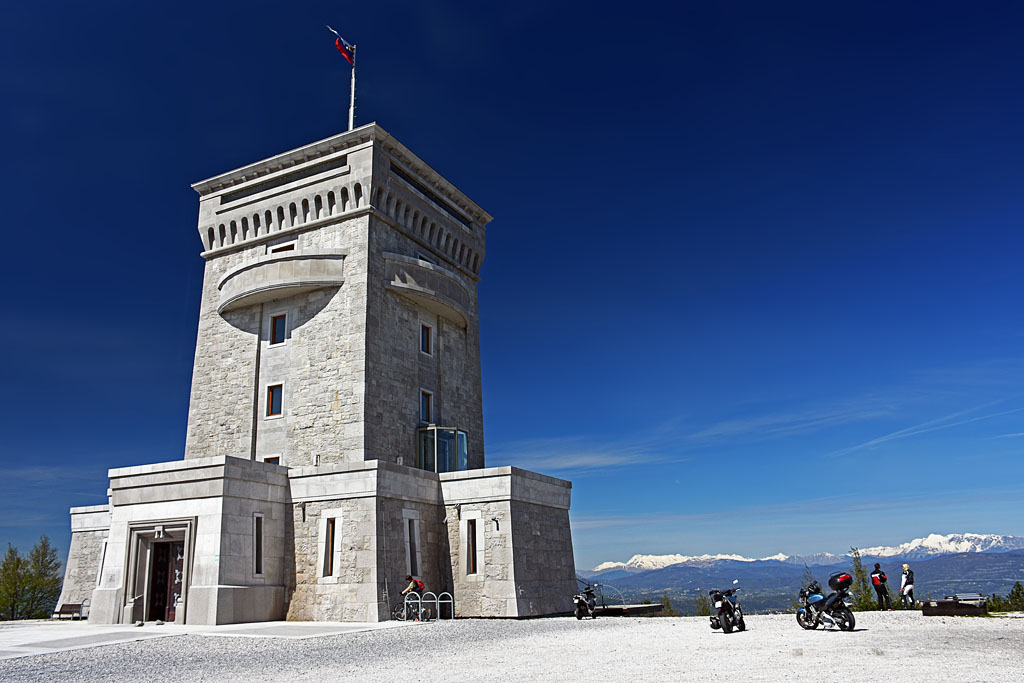 The monument on Cerje hill is deditcated to the defenders of Slovenian land.